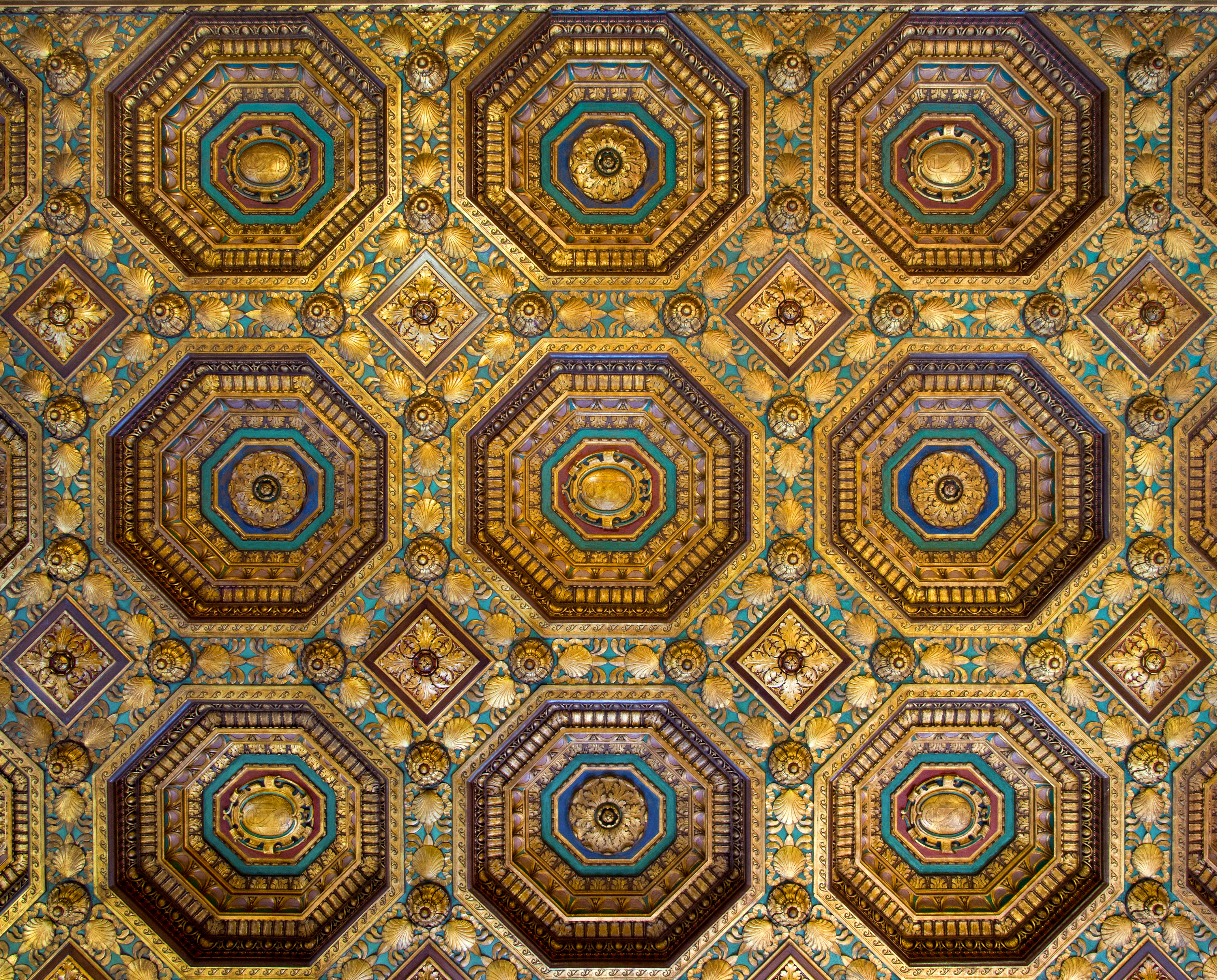 Ceiling in the Collector's Office of the Alexander Hamilton U.S. Custom House. The ceiling, as with the wall panels, were designed by Tiffany Studios.